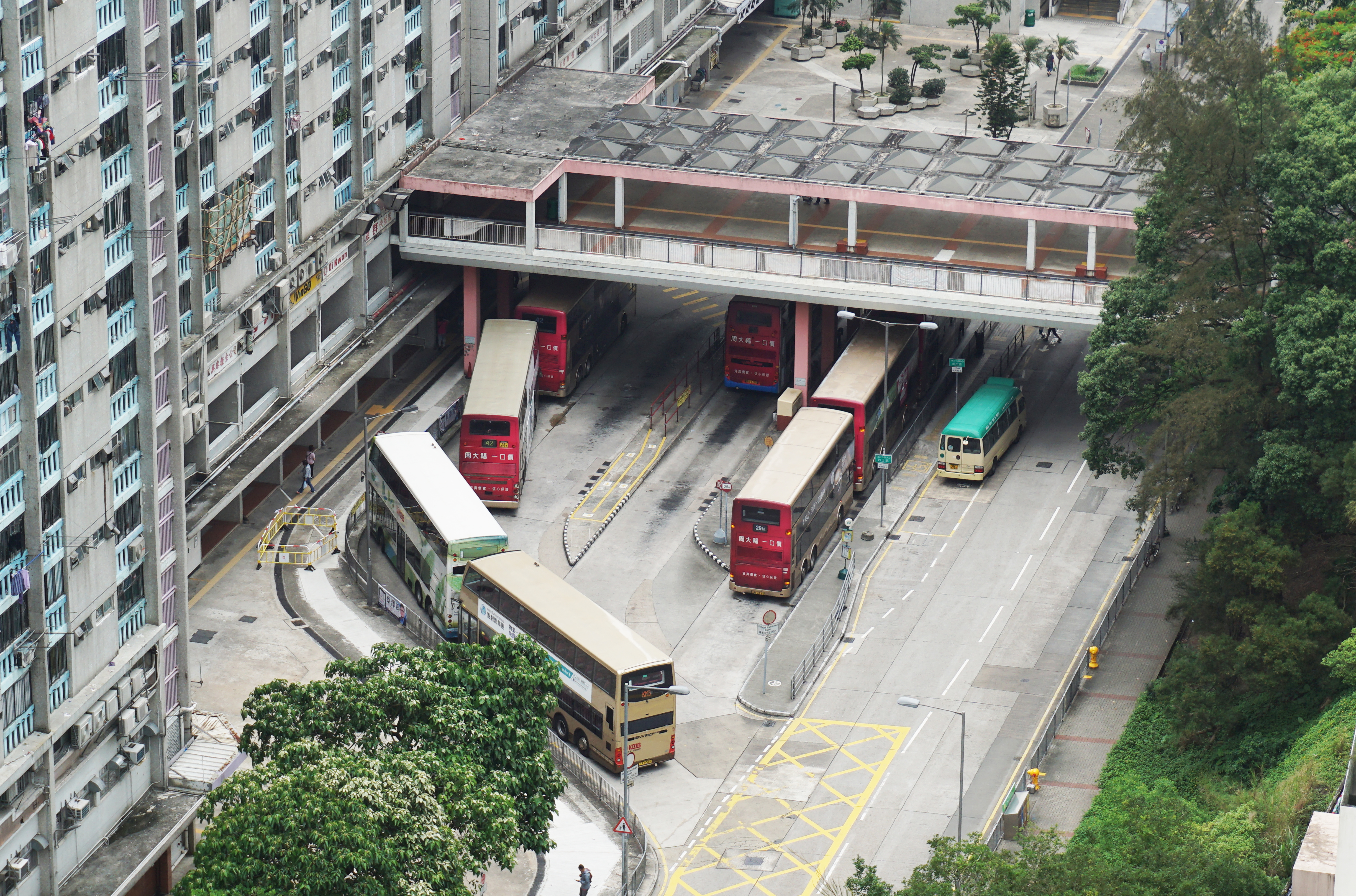 Shun Lee Bus Terminus in Shun Lee Estate, Hong Kong.